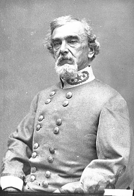 Gen. Benjamin Huger, CSA This image is available from the United States Library of Congress's Prints and Photographs division under the digital ID cwpb.06000. This tag does not indicate the copyright status of the attached work. A normal copyright tag is still required. See Commons:Licensing for more information.